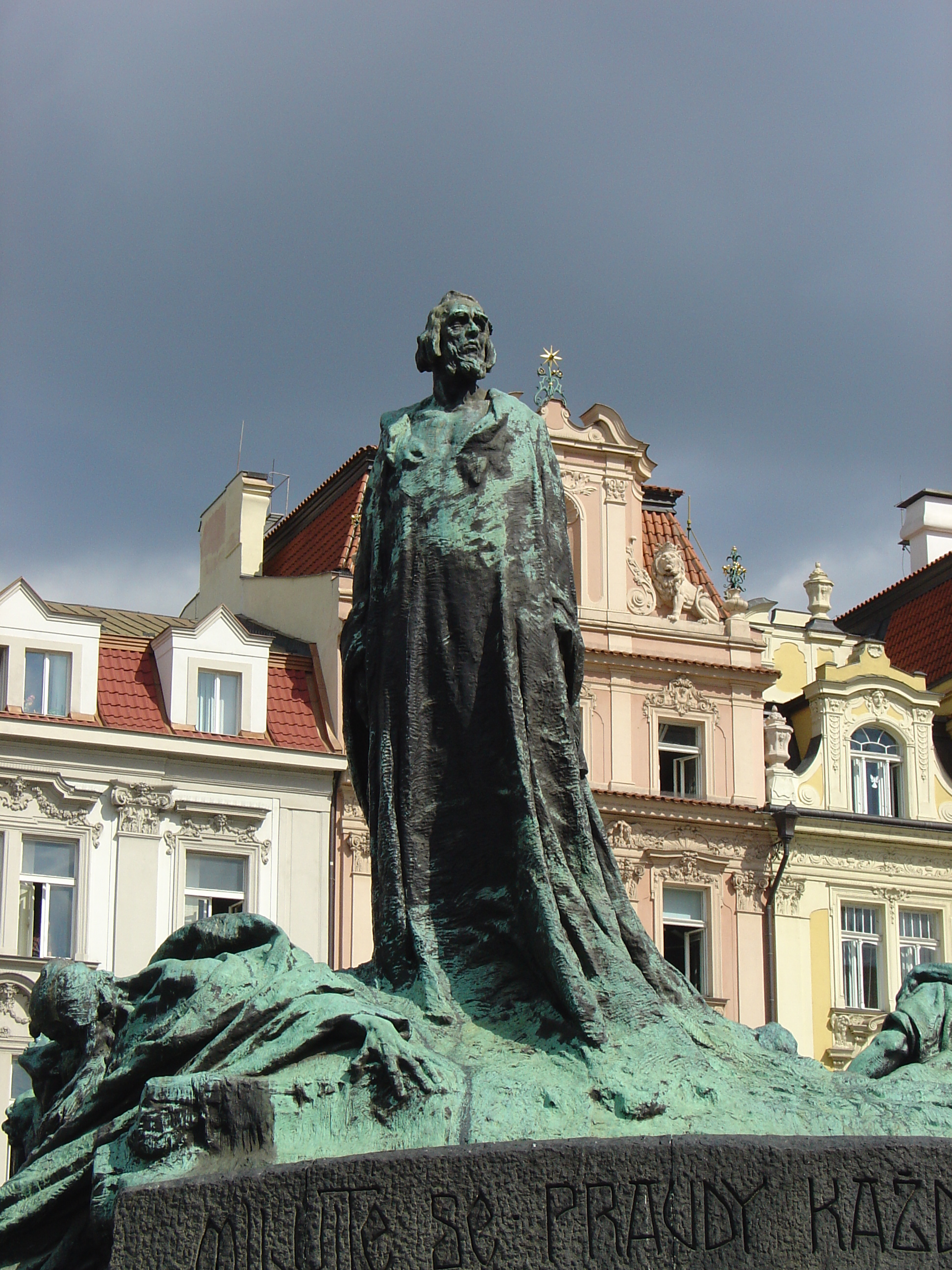 Monument to Jan Hus, Staroměstské náměstí, Prague.